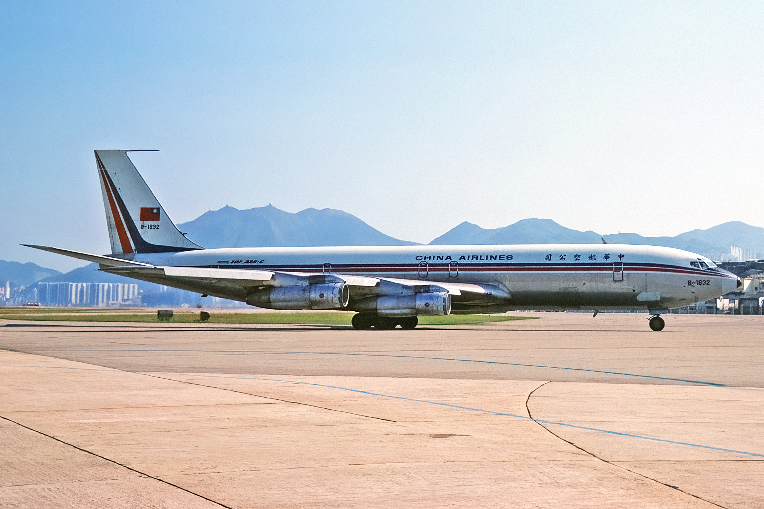 China Airlines in the original c/scheme. Taken at the old Kai Tak airport when I was working there with B.Cal on relief